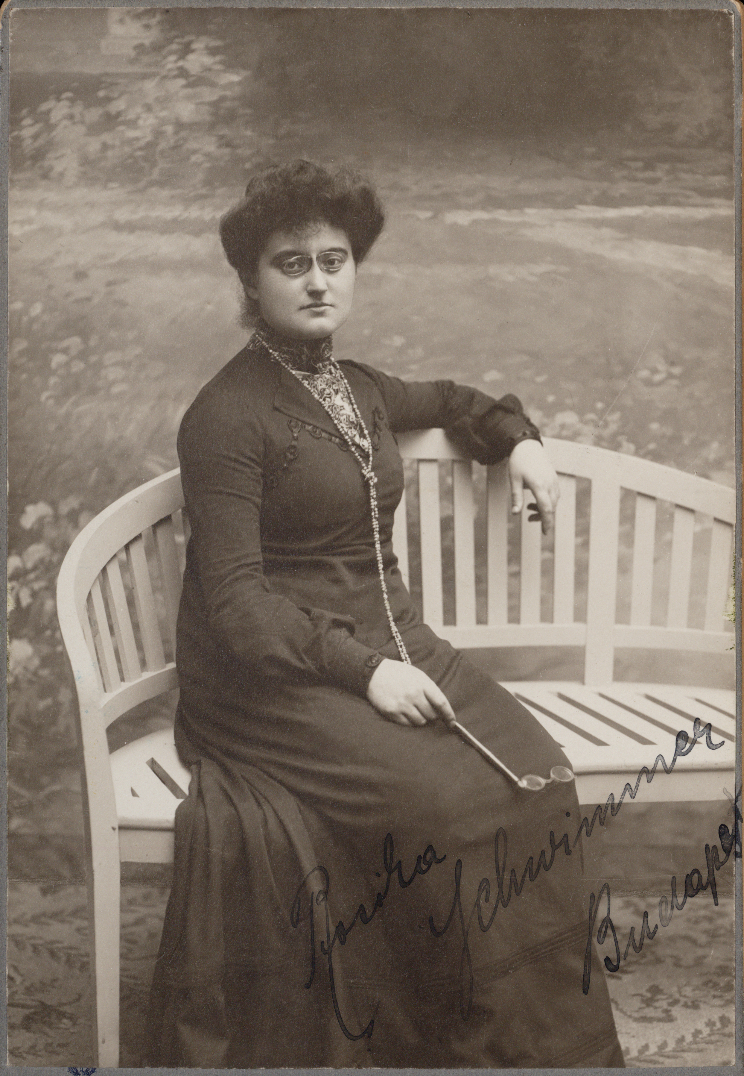 Rosika Schwimmer (1877-1948). She was the world's first female ambassador (representing Hungary in Switzerland, 1918). Member of the board of the International Woman Suffrage Alliance van 1913-1920. From Dutch IAV-archives, returned from Moskou in 2003. Photo 1890's. N.B. Per [1], that appears to be her actual signature on the image. This is a partial restoration, down to about the level I felt comfortable, given the weird crop of the original meaning I was never going to be completely happy, given I didn't want to remove her signature, but the way it interacts with the edge is awkward enough that I'd want to show the whole carte-de-visite if it weren't mangled. - Adam Cuerden